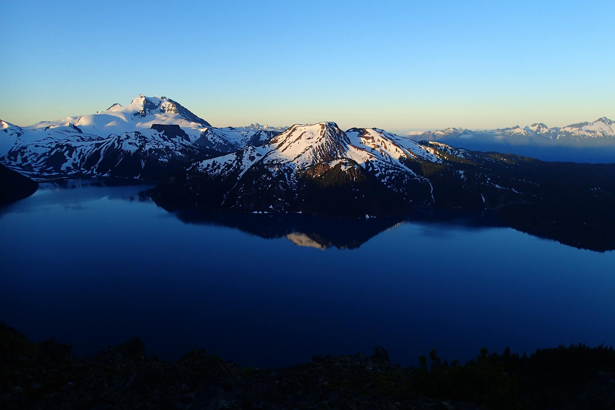 Garibaldi Lake, seen from Panorama Ridge at dawn. Mount Garibaldi and The Table are visible on the left of the image.